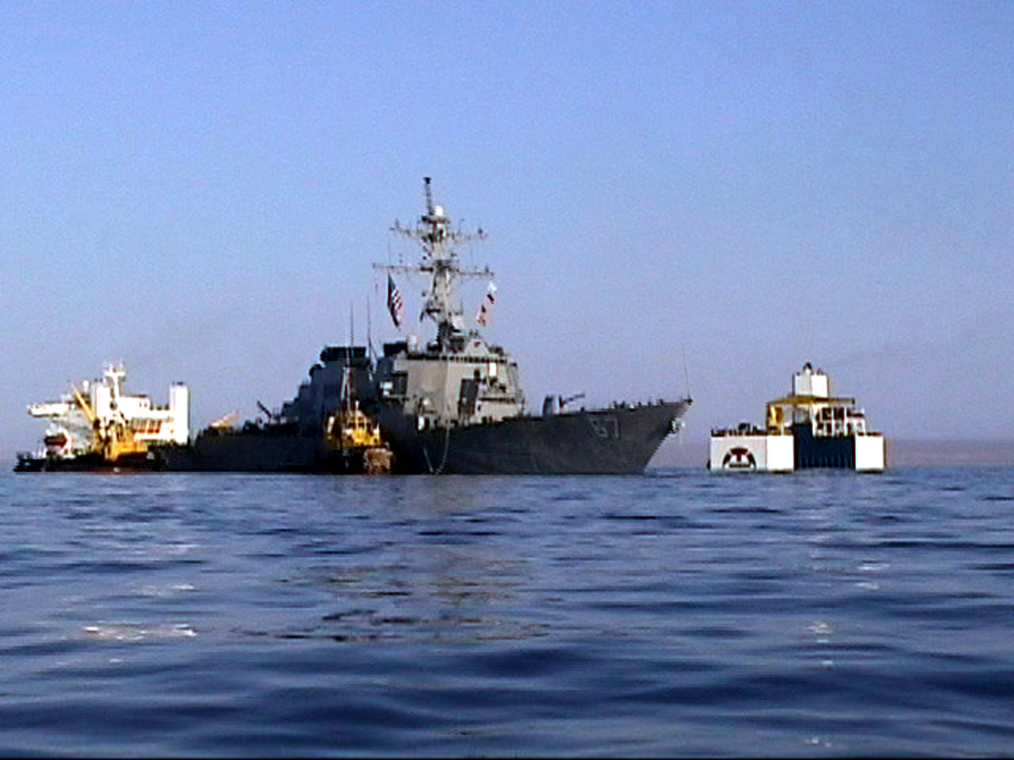 The USS Cole (DDG 67) (left) waits for the Norwegian heavy transport ship M/V Blue Marlin to maneuver under the destroyer off the coast of Aden, Yemen, on Oct. 30, 2000. Cole will be placed aboard the Blue Marlin and transported back to the United States for repair. The Arleigh Burke class destroyer was the target of a suspected terrorist attack in the port of Aden on Oct. 12, 2000, during a scheduled refueling. The attack killed 17 crew members and injured 39 others.